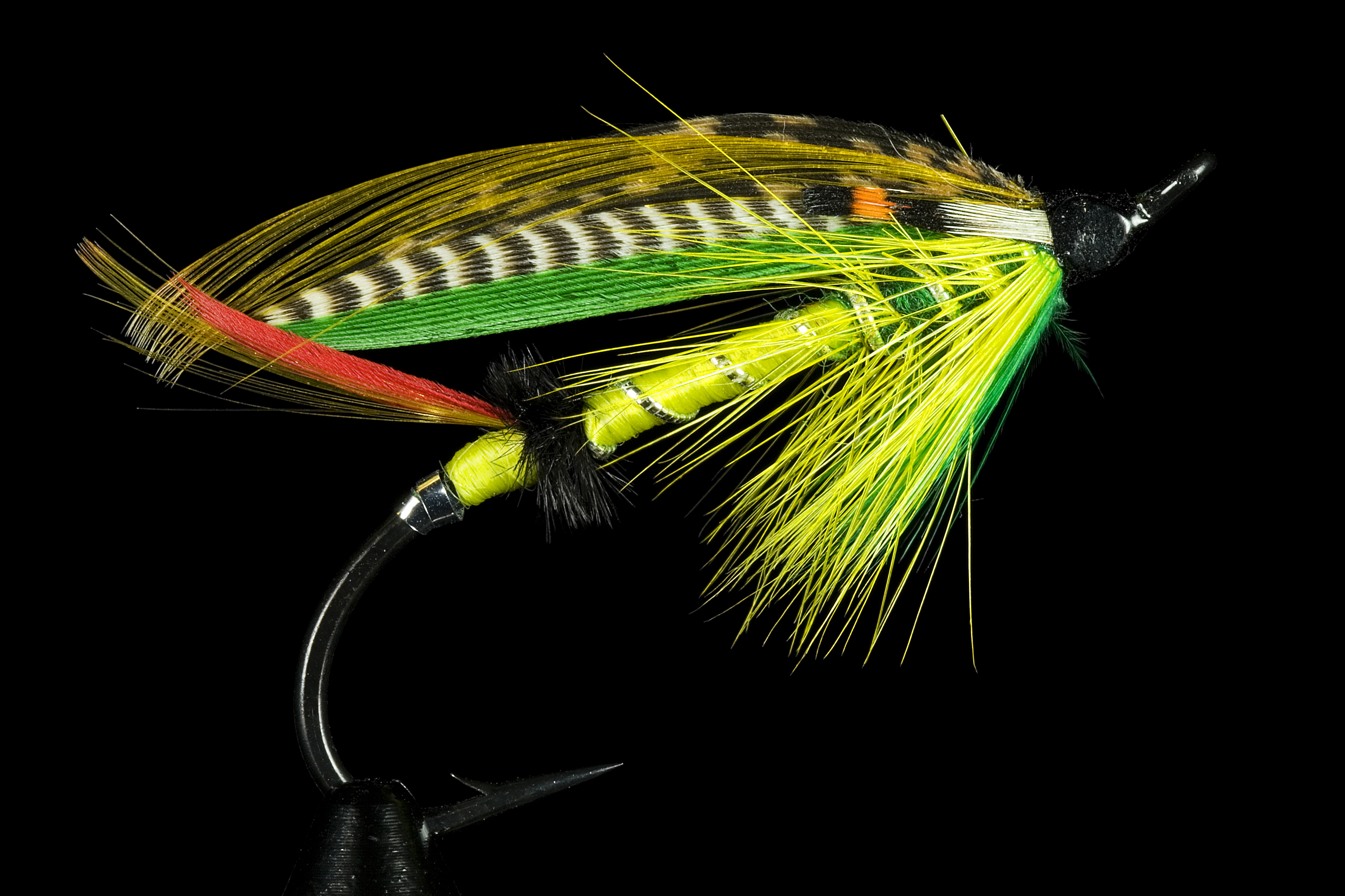 Green Highlander salmon fly. The hook length in this example is 4.5cm.